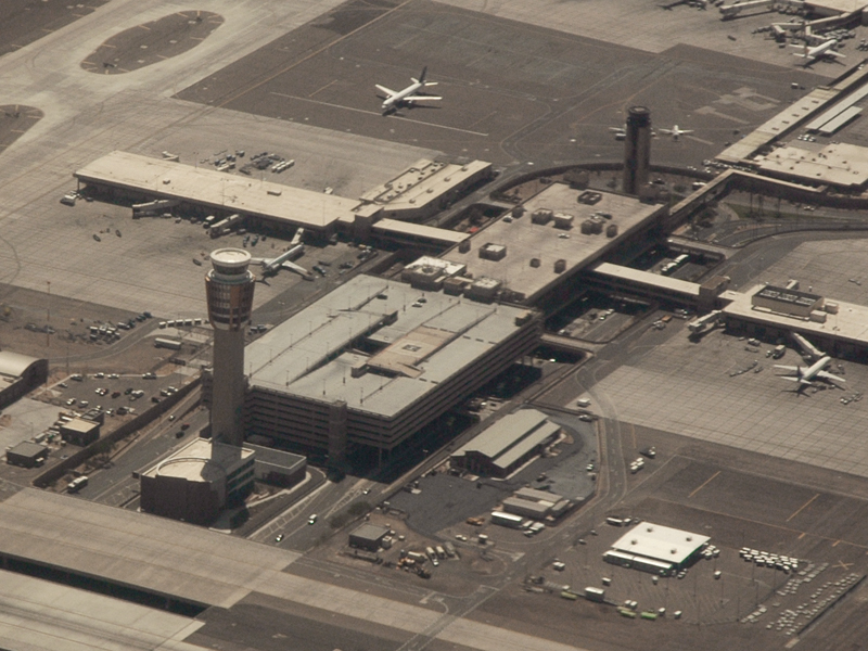 New tower at Sky Harbor International Airport, 8/12/07.